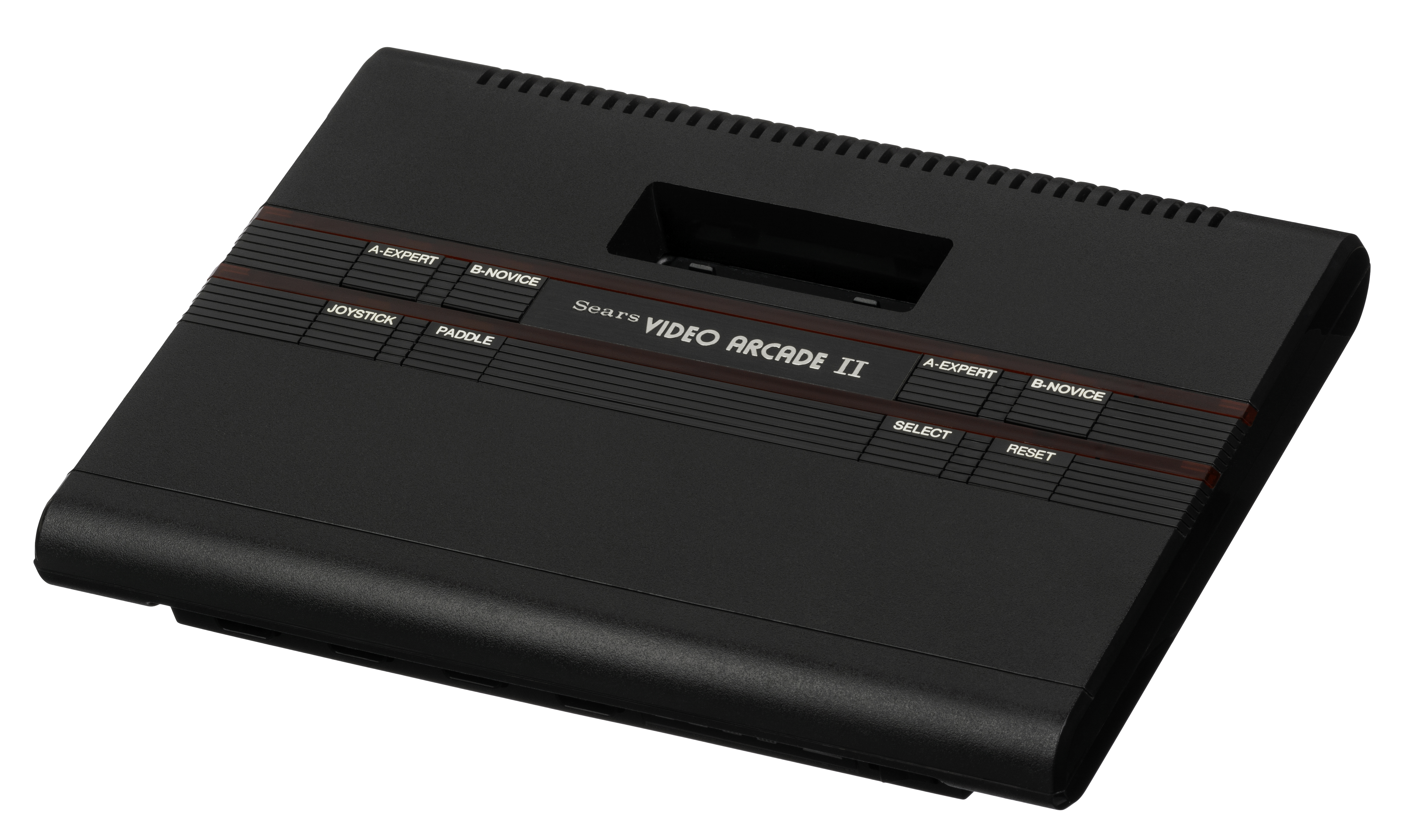 The Atari 2600, a video game console released by Atari in 1977. Originally called the Atari Video Computer System, the system was the most popular gaming console of the late '70s and early '80s. This model is the Sears-branded "Video Arcade II" model, which came after the original Tele-Games model. It features a case redesign that was borrowed from the Atari 2800 (the Japanese 2600) and later inspired the Atari 7800.